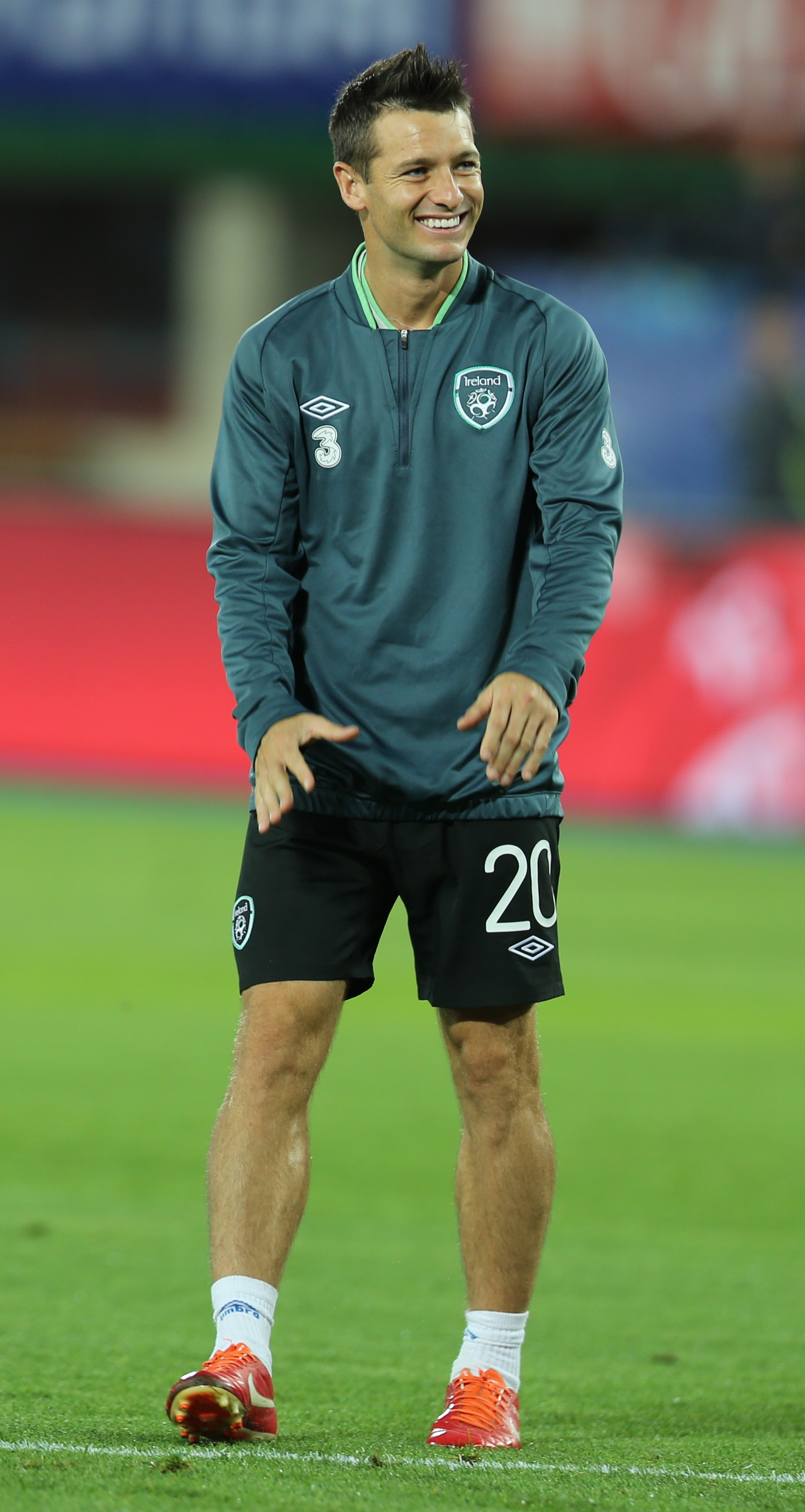 2014 FIFA World Cup qualification (UEFA), Group C: Republic of Ireland national football team at 10. September 2013 before the match against the Austria national football team (0:1) in the Ernst-Happel-Stadion in Vienna. Here: Wes Hoolahan, Irish midfielder. The making of this work was supported by Wikimedia Austria. For other files made with the support of Wikimedia Austria, please see the category Supported by Wikimedia Österreich.